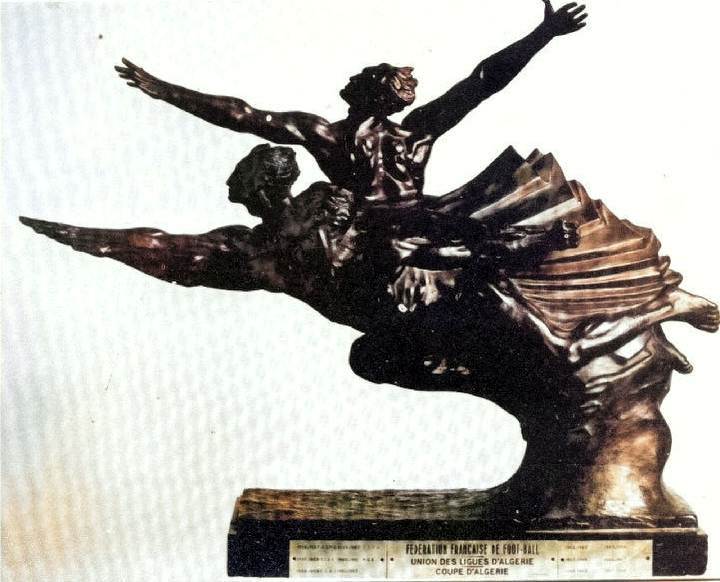 Trophy of Coupe d'Algérie de football (1957-1962)